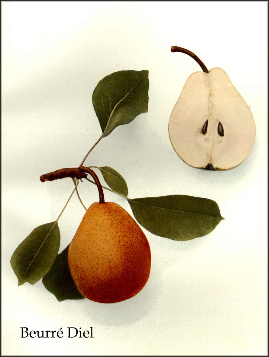 A colour plate from The Pears of New York (1921) depicting the Beurré Diel pear cultivar.